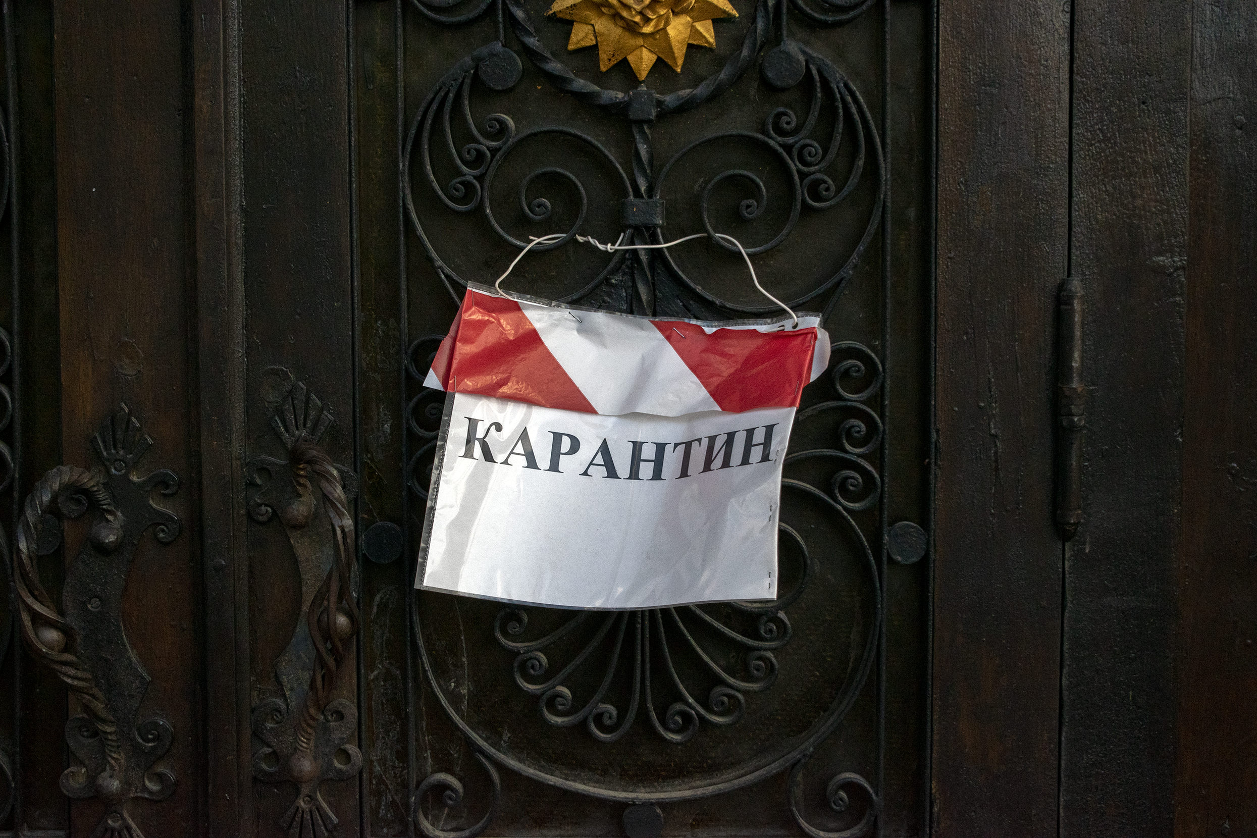 Lutsk Basic Medical College closed door during COVID-19 pandemic